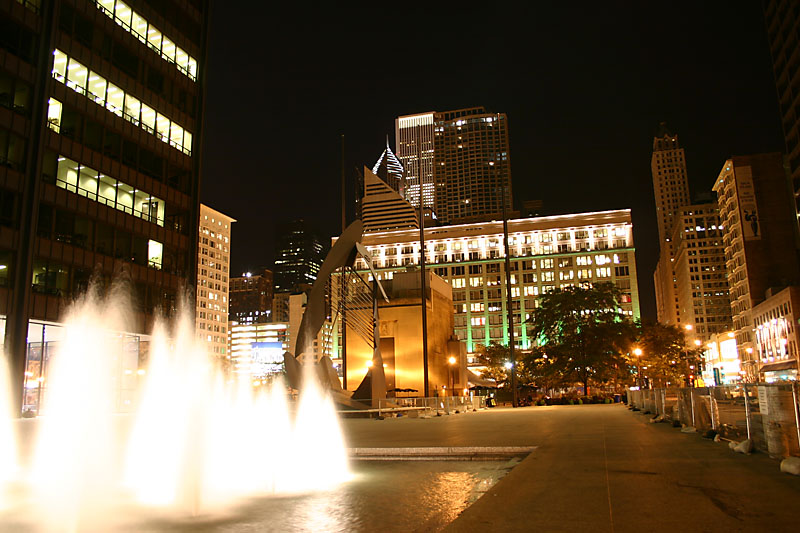 Kelvin Kay user:Kkmd